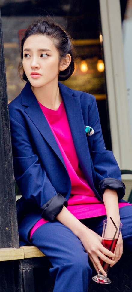 Tang Yi Xin in 2016 This is a retouched picture, which means that it has been digitally altered from its original version. Modifications: cropped. The original can be viewed here: Tang Yi Xin.jpg. Modifications made by LimSoo-jung.